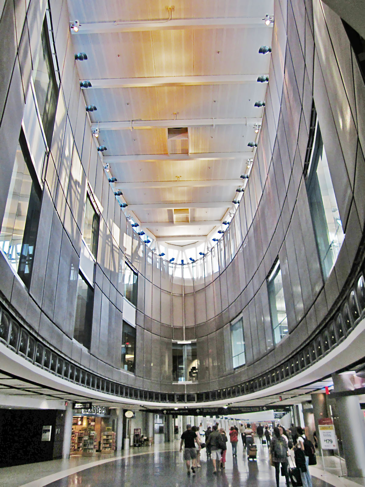 Terminal E at George Bush Intercontinental Airport in Houston.